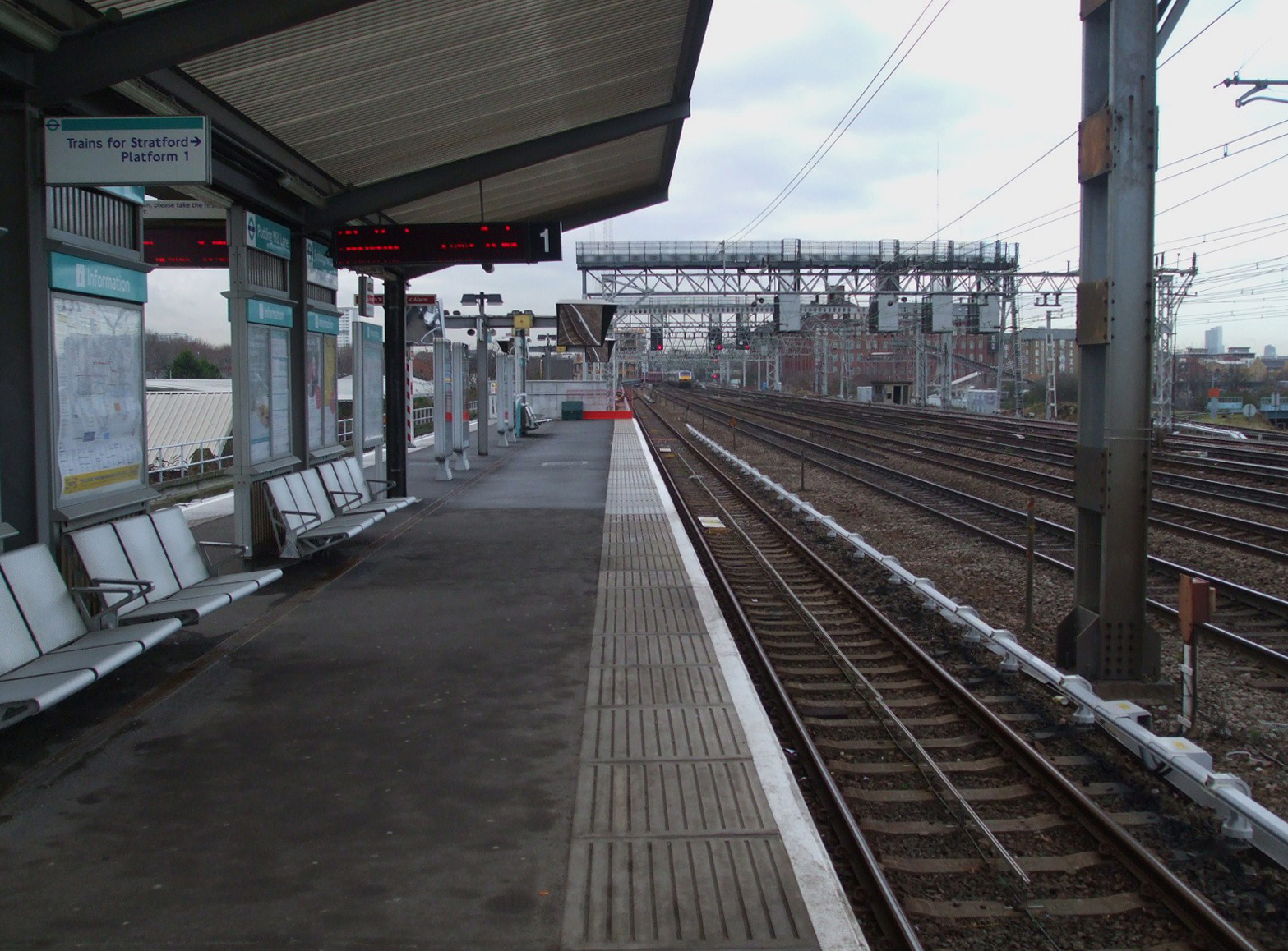 Pudding Mill Lane DLR station looking west, with the Great Eastern main line on the right. An Intercity train bound for London can be seen ahead. Note that the DLR is single track either side of the station.